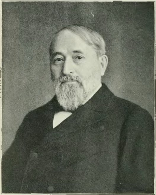 Portrait in History of Iowa From the Earliest Times to the Beginning of the Twentieth Century